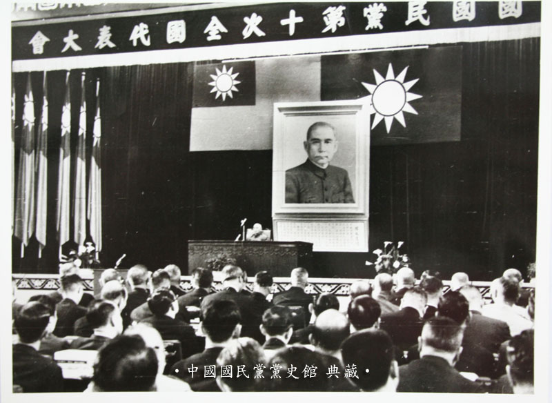 Photo taken at the 10th National Congress of the Chinese Kuomintang, held between 29 March and 9 April, 1969 in Taipei.